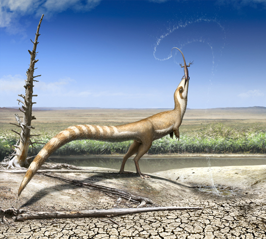 Reconstruction of Sinosauropteryx in the predicted open habitats in which it lived around the Jehol lakes, preying on the lizard Dalinghosaurus. (Robert Nicholls, Fiann M. Smithwick, Innes C. Cuthill, Jakob Vinther (2017). Countershading and Stripes in the Theropod Dinosaur Sinosauropteryx Reveal Heterogeneous Habitats in the Early Cretaceous Jehol Biota Figure 2 (B))